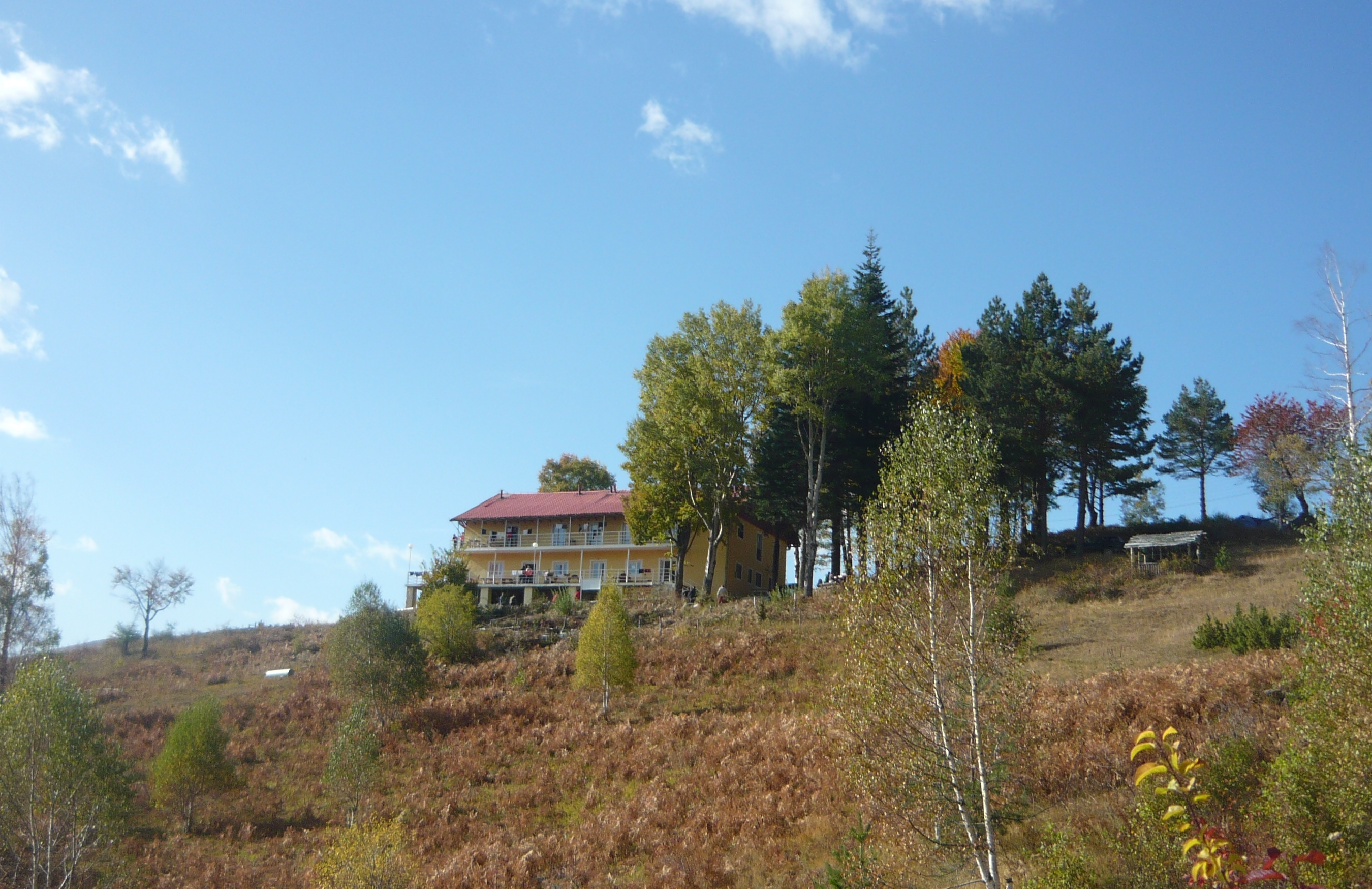 Karadzica